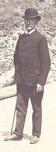 Johann Kellerer, 1914.